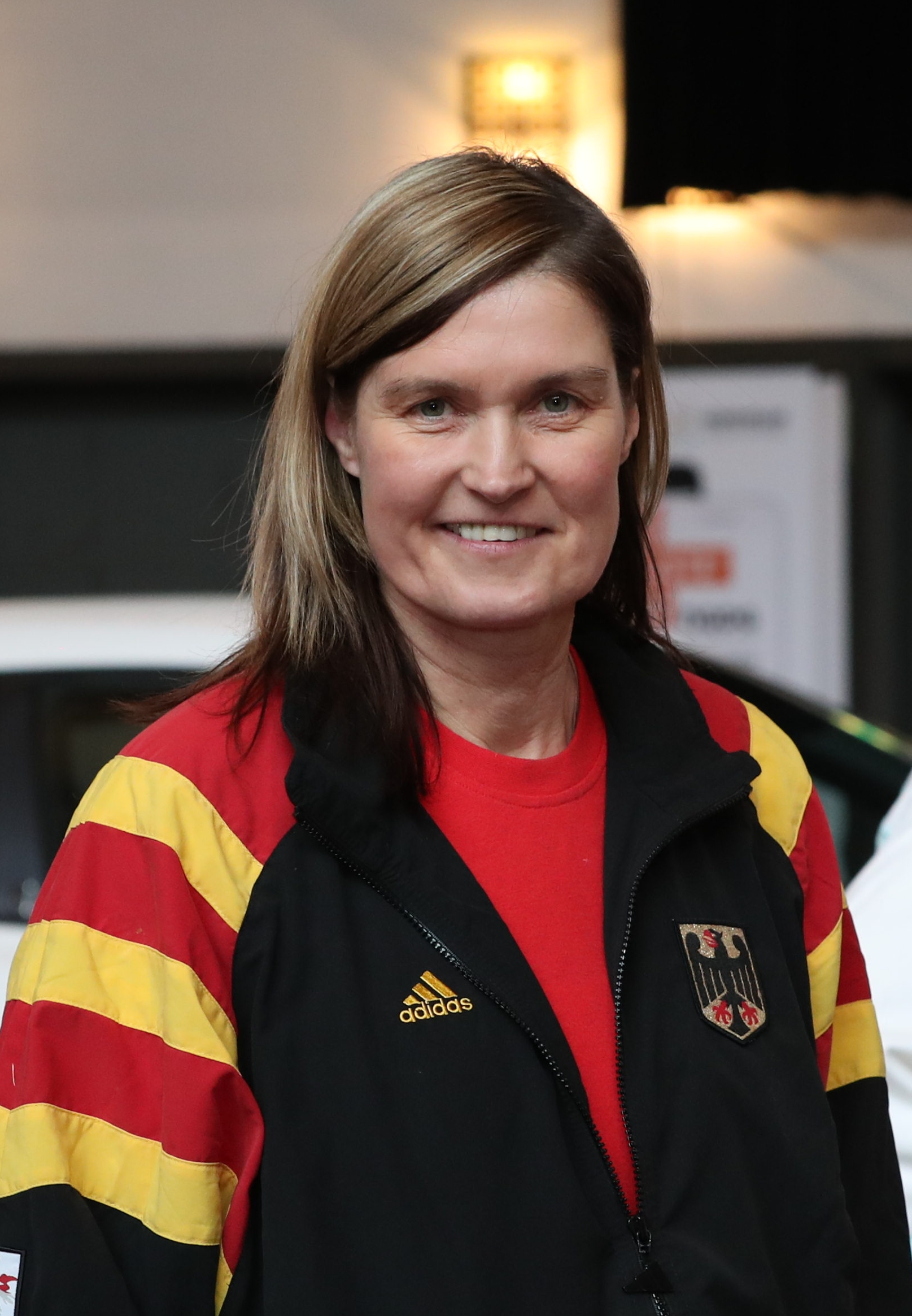 Investiture of the German team for Winter Olympics 2018 in Pyeonchang: Silke Kraushaar-Pielach